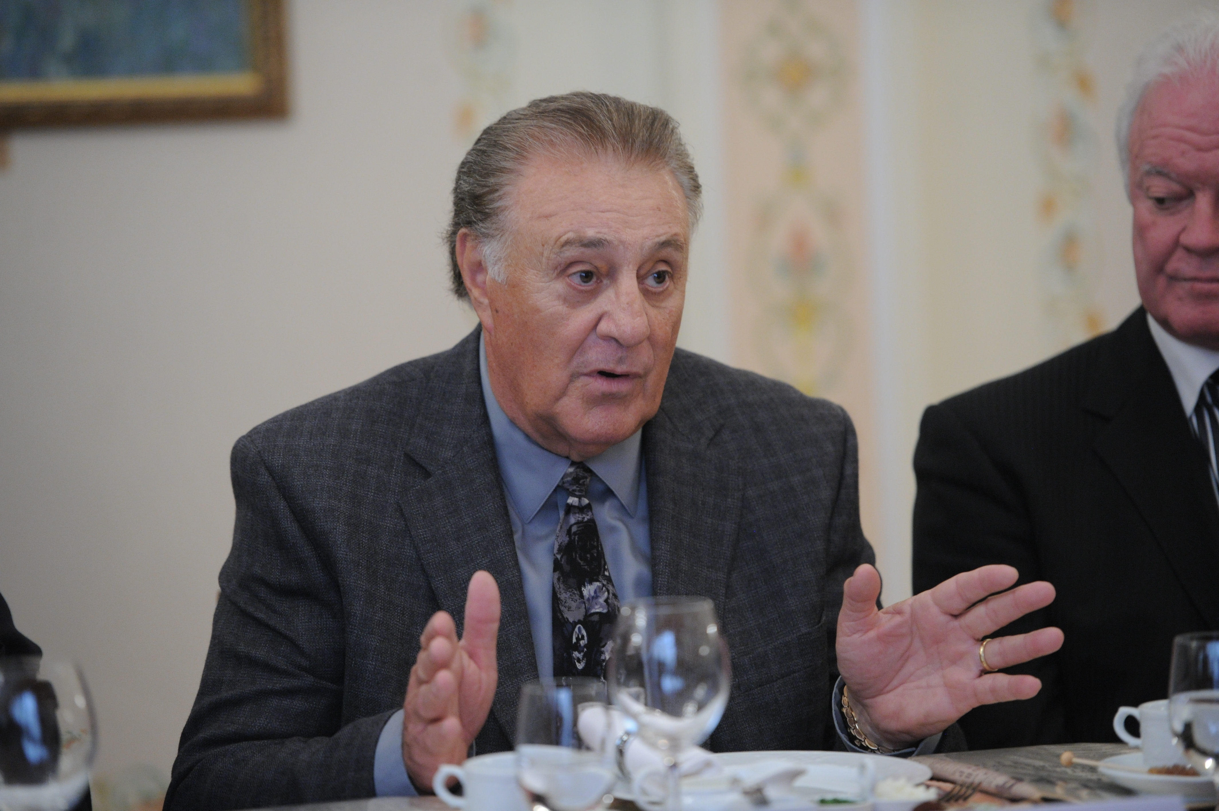 Canadian centre (ice hockey) Philip Anthony Esposito